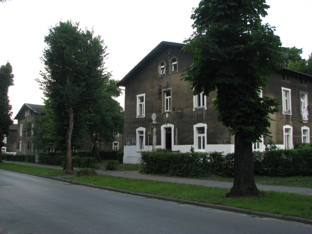 Zawiercie, Niedziałkowskiego str., workers estate of TAZ